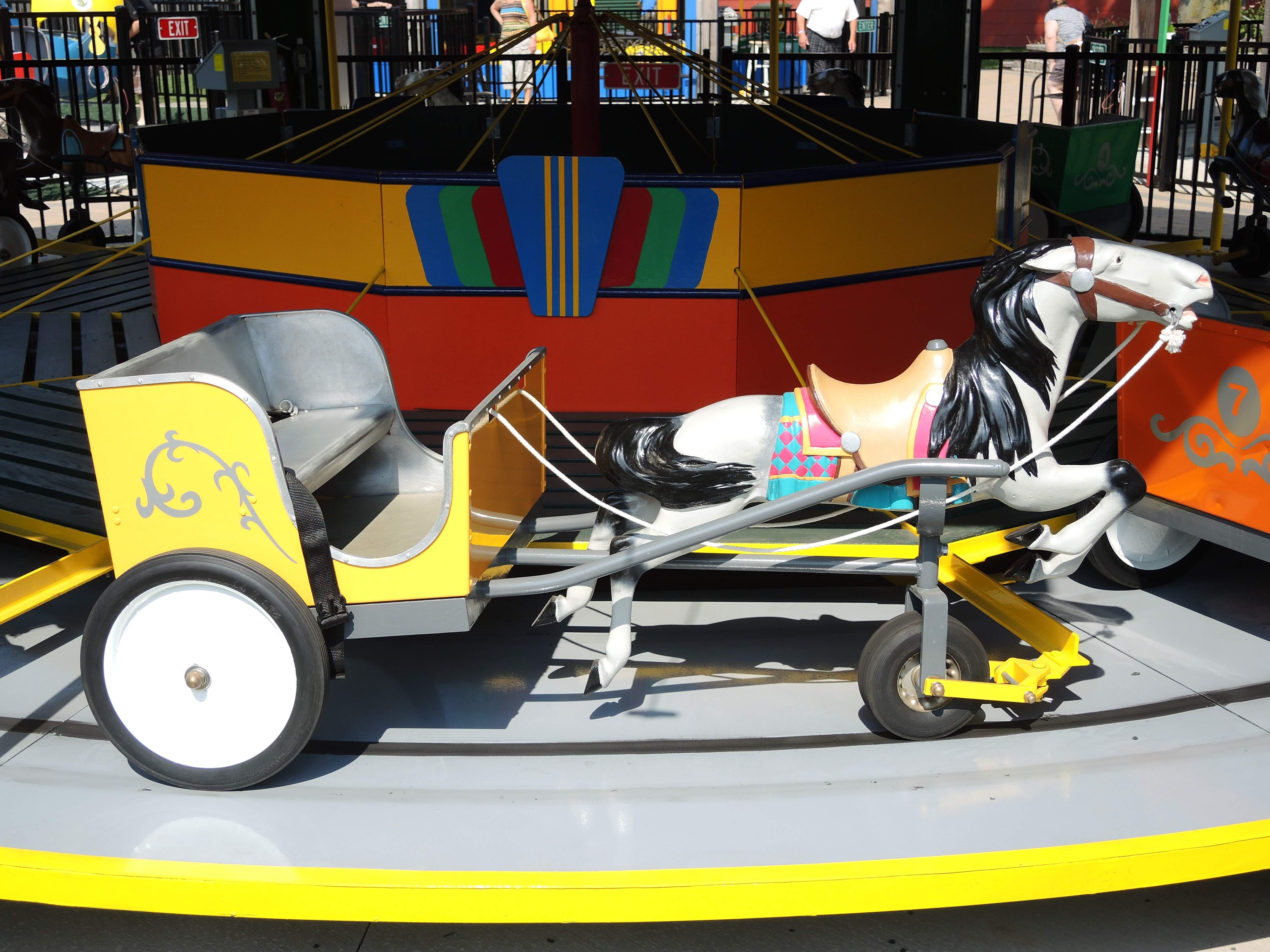 Harness racing Kiddie ride at the Herschell Carrousel Factory Museum (note the museum prefers the double R spelling) in North Tonawanda, New York